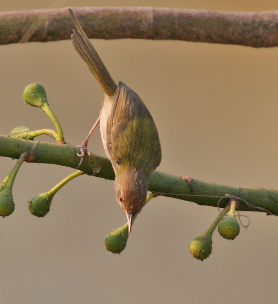 Common Tailorbird Orthotomus sutorius in Kolkata, West Bengal, India.